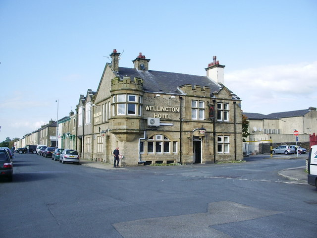 Wellington Hotel, Barns Square, Clayton-le-Moors